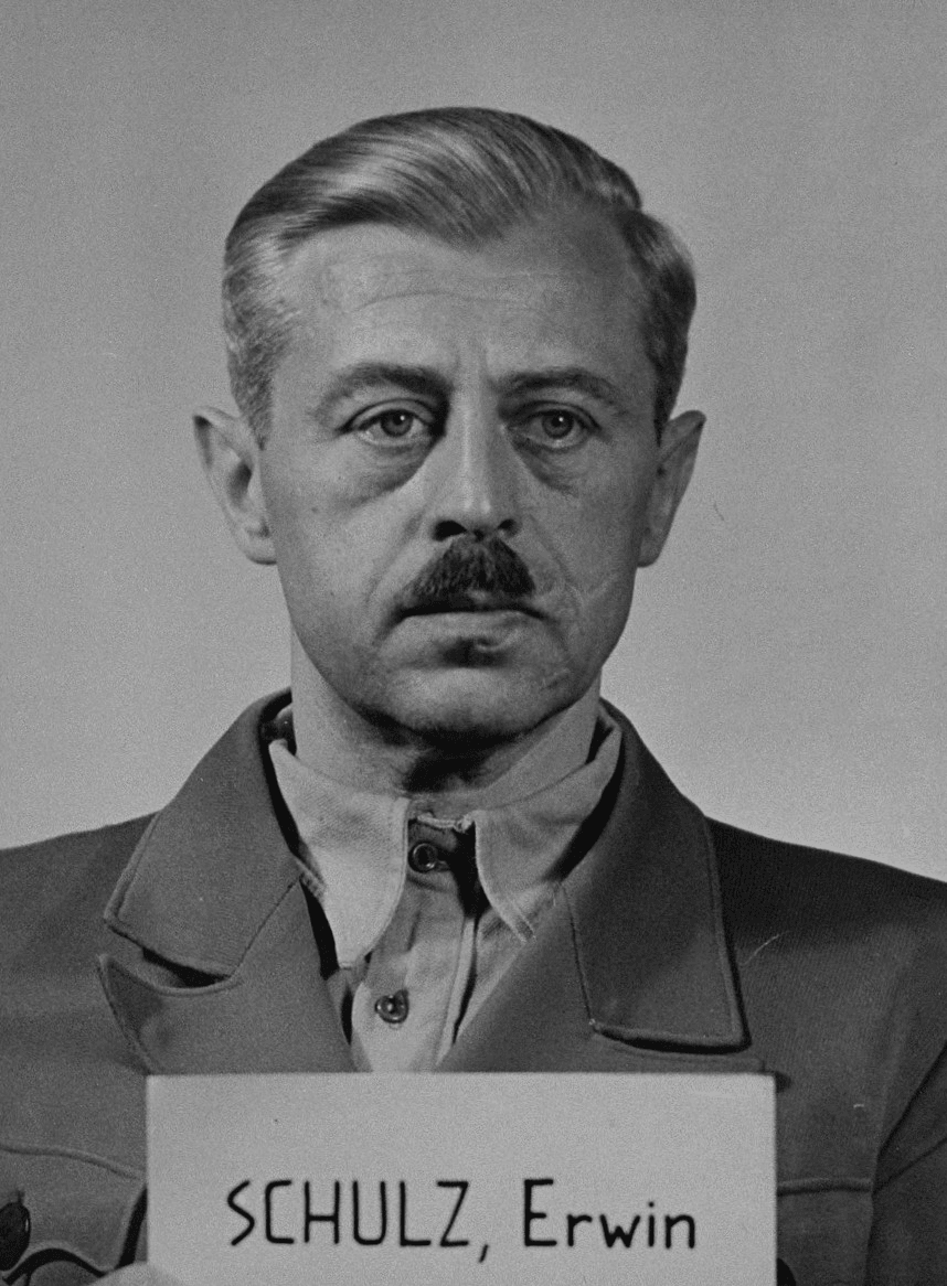 Erwin Schulz (1900-1981), German SS-General of the Einsatzgruppen killing squads. This photograph of Schulz was taken by US Army photographers on behalf of the Office of Chief of Counsel for War Crimes (OCCWC) during Nuremberg Trial IX (Einsatzgruppen Trial / Einsatzgruppen-Prozess).